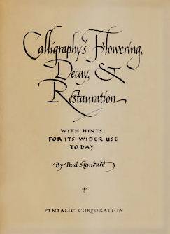 book cover